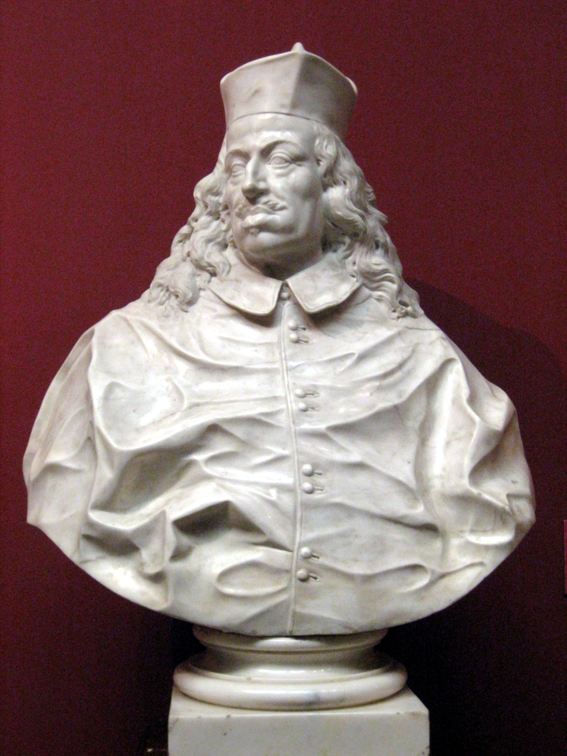 Leopoldo de' Medici. Marble sculpture in the Pushkin Museum, Moscow.